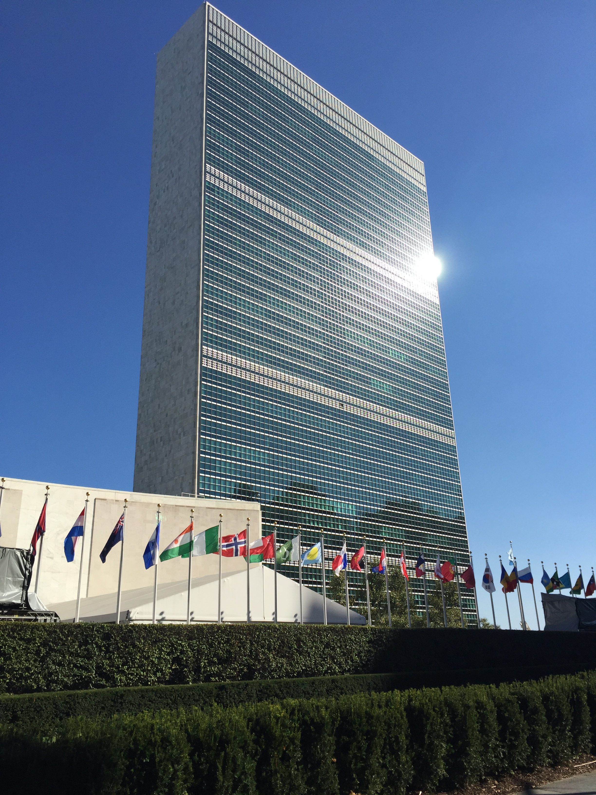 UN Headquarters in New York, NY, USA